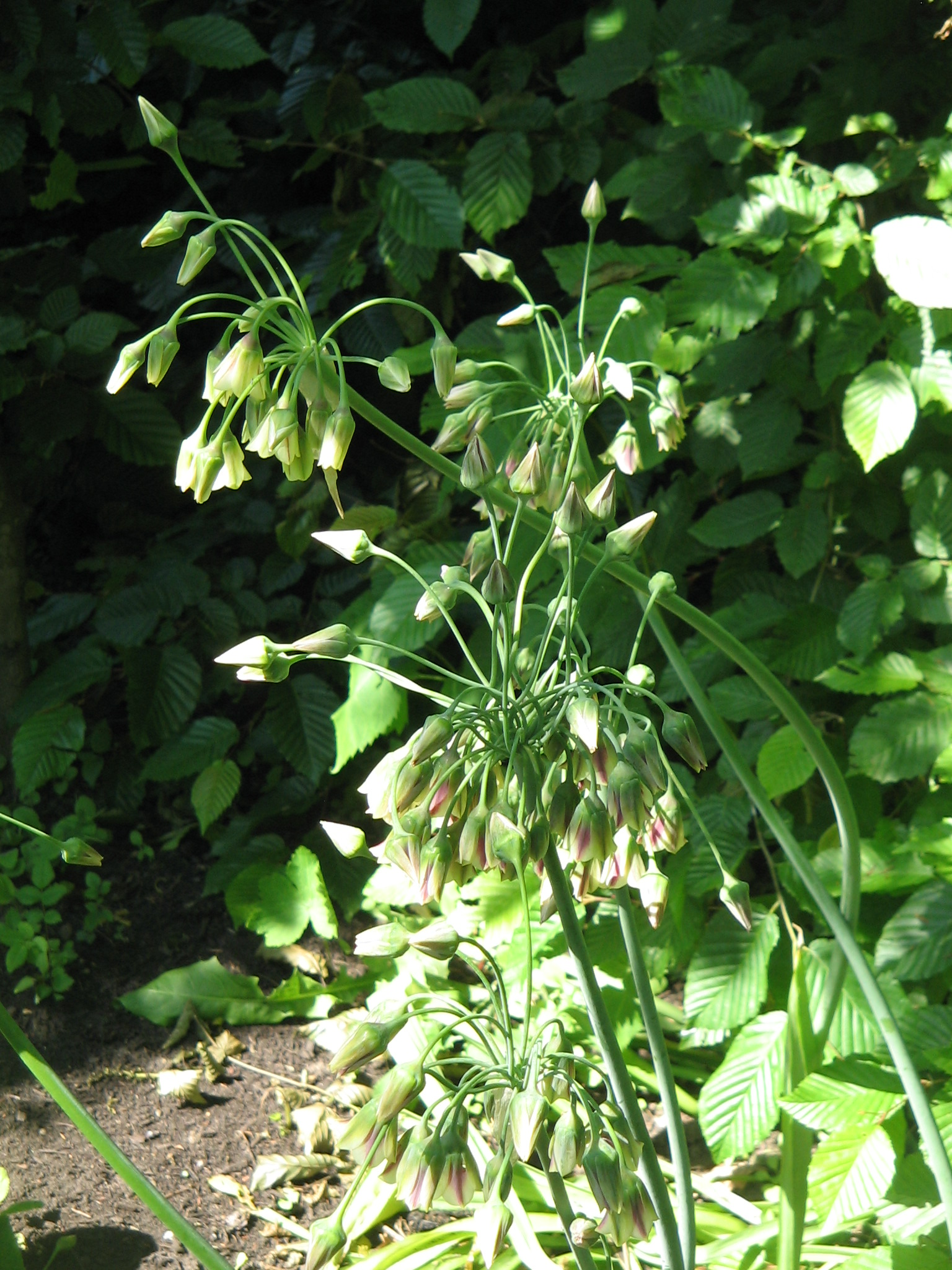 Nectaroscordum siculum